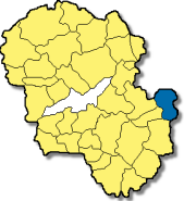 Locator maps of municipalities in Bavaria - District Landshut